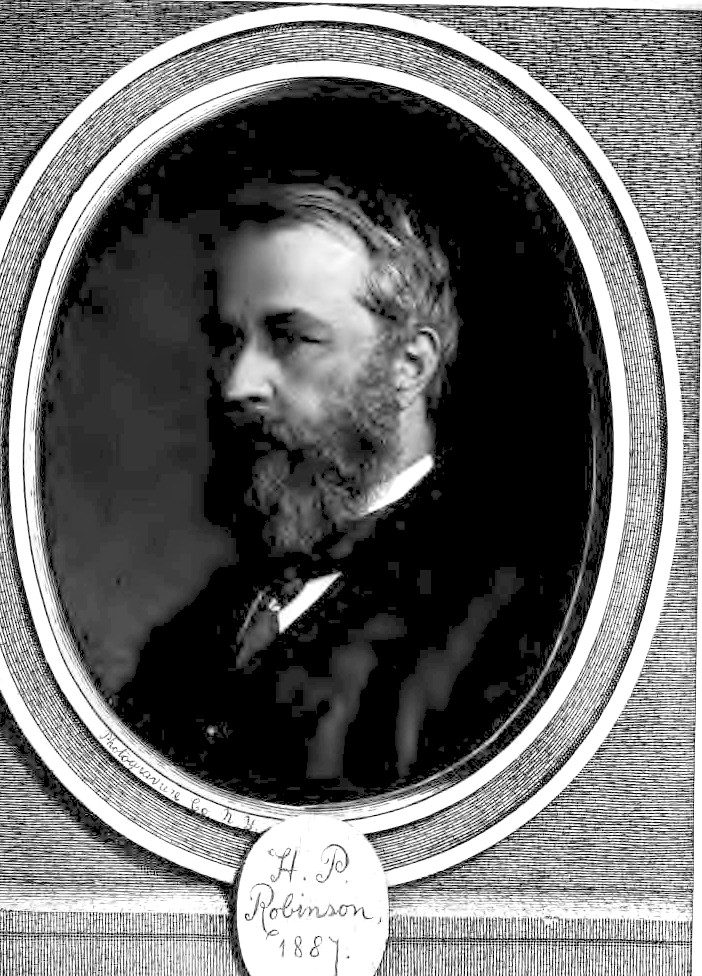 Photogravure Henry Peach Robinson 1887.